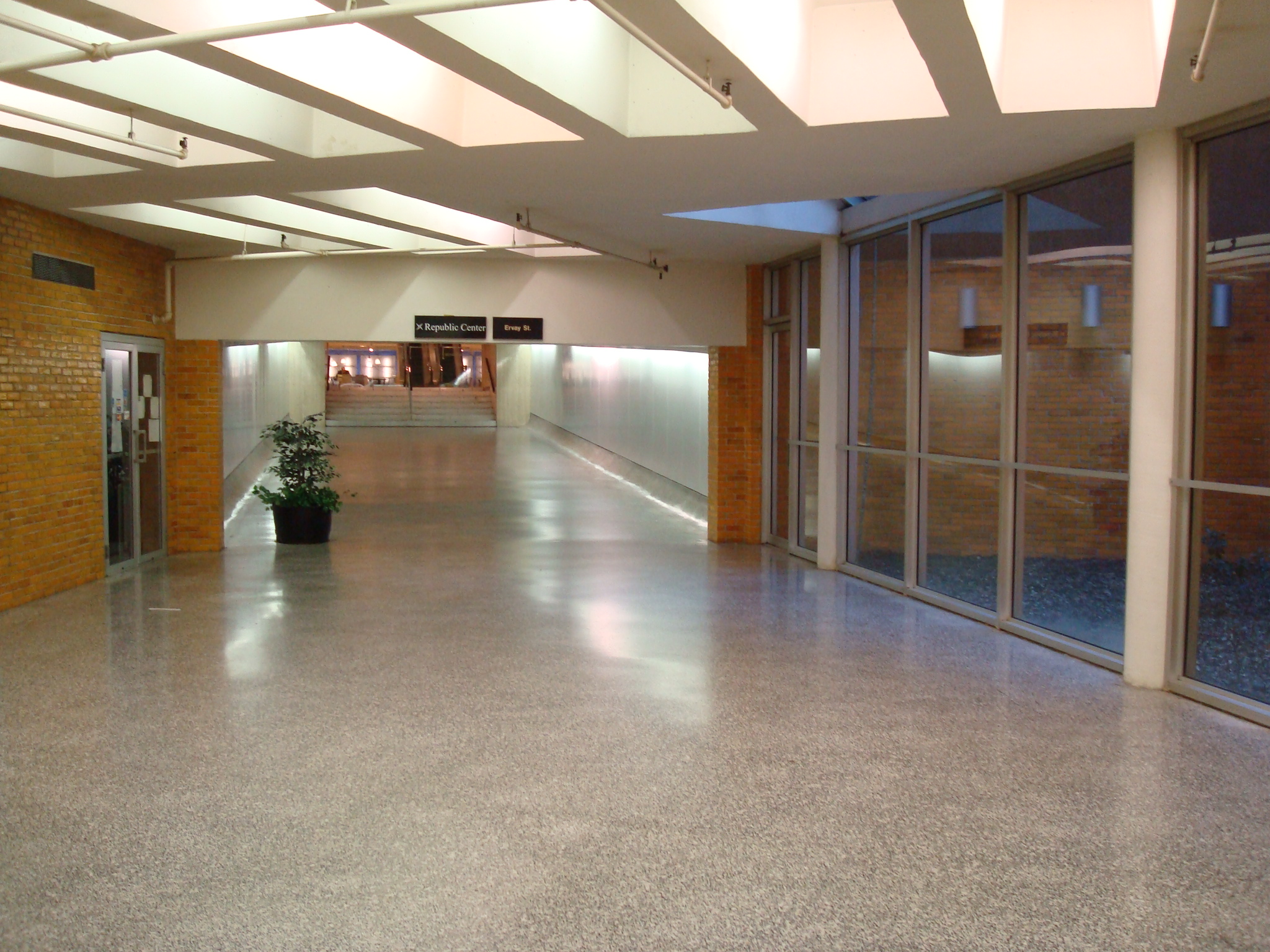 A section of the Dallas Pedestrian Network beneath Thanks-Giving Square